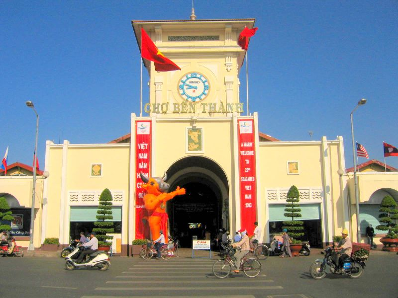 Ben Thanh market in downtown Ho Chi Minh City.